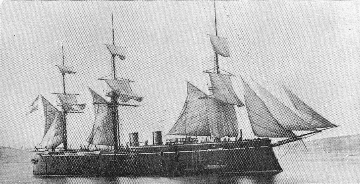 Photo of the Austria-Hungarian ironclad Custoza.